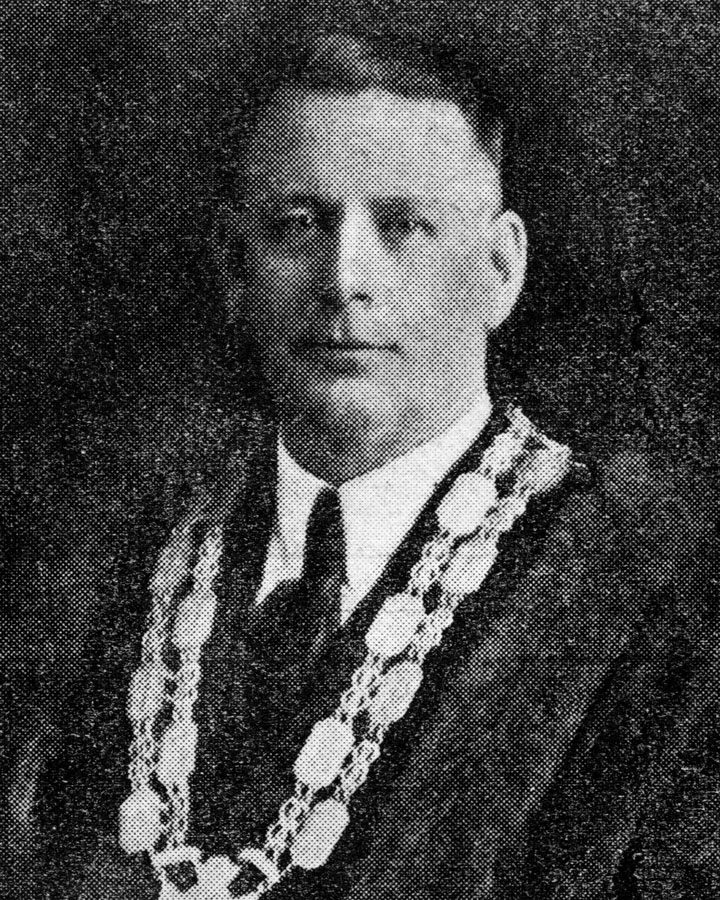 Portrait of George William Hutchison, Mayor of Auckland (1931-35)